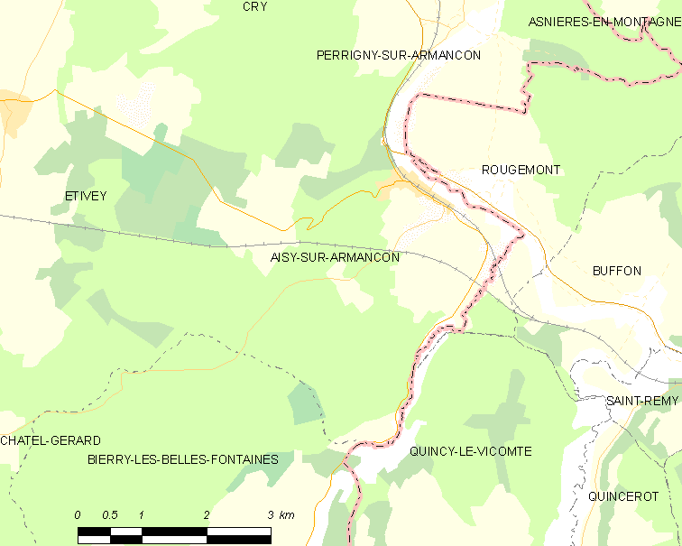 Map of French municipality Aisy-sur-Armançon